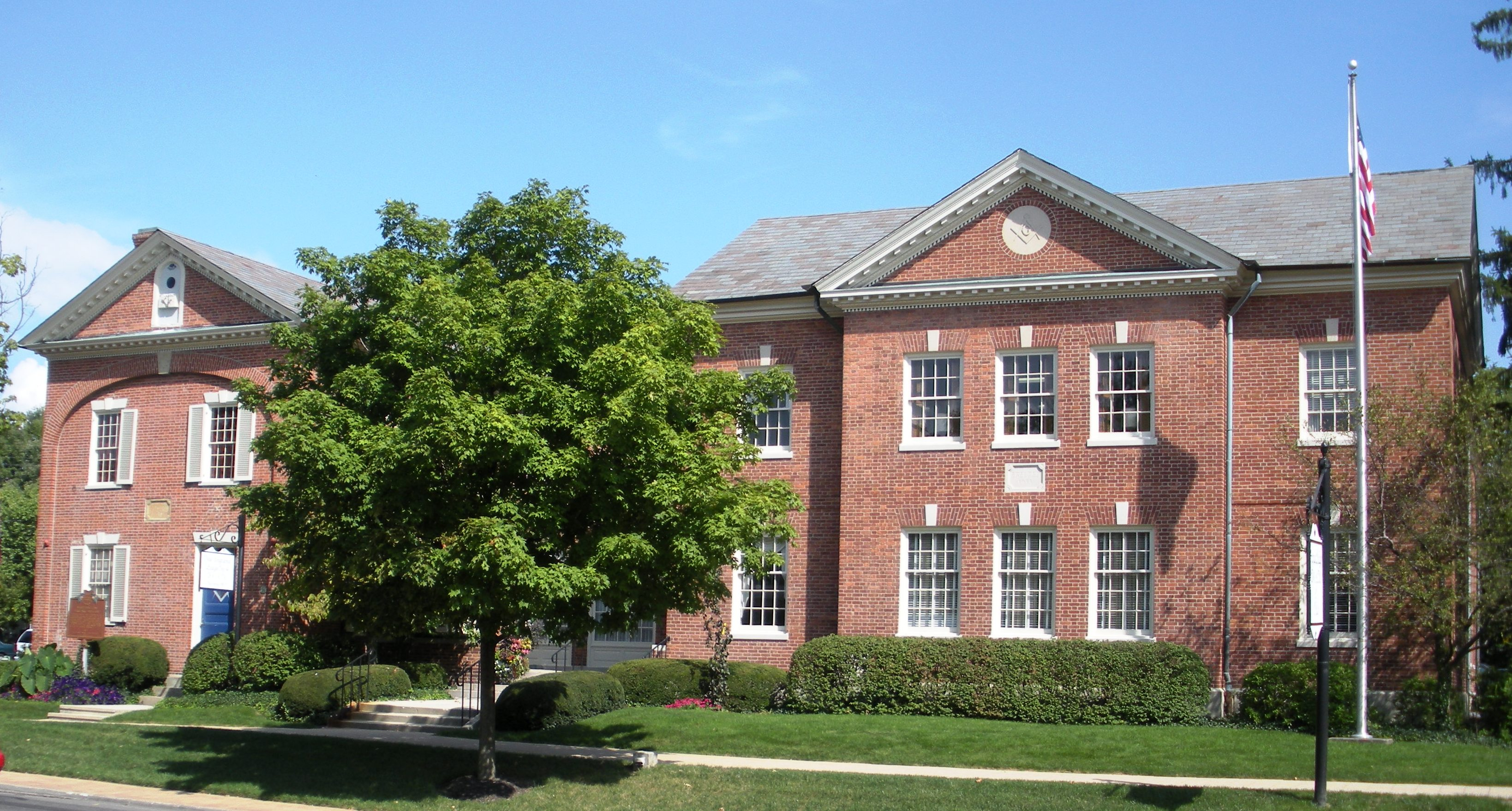 Headquarters of the Grand Lodge of Ohio and Museum at 634 High Street, Worthington Ohio